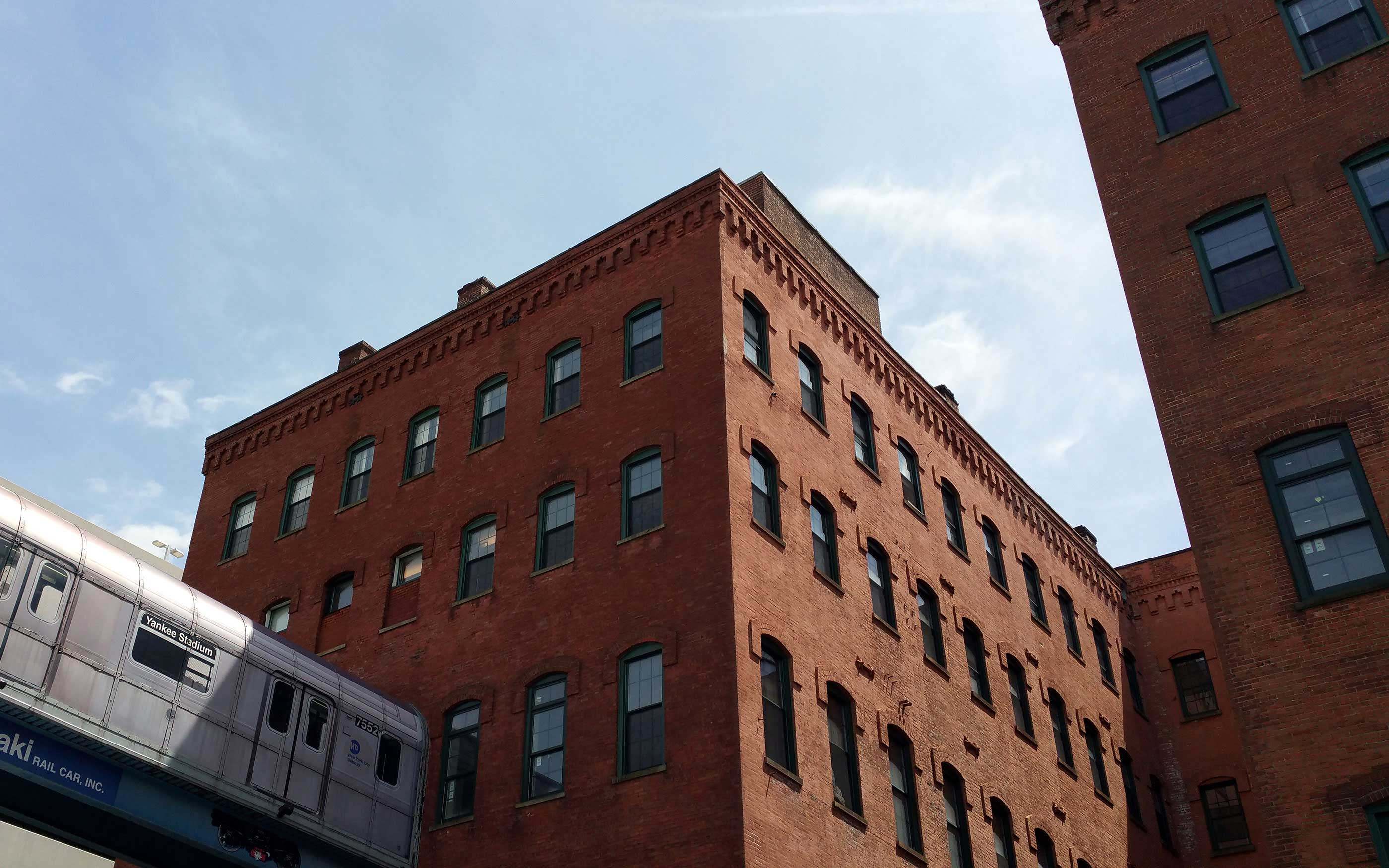 28 Wells Avenue, Yonkers New YOrk